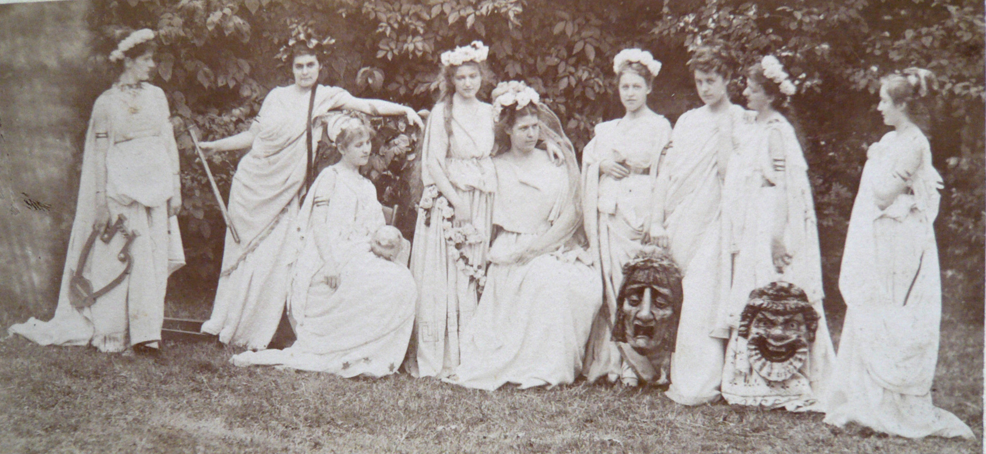 Photo of the Festival of the "Malkasten Düsseldorf" to commemorate the visit of Emperor Wilhelm I., directed by Carl Hoff (1838-1890) - second left: Else Sohn-Rethel